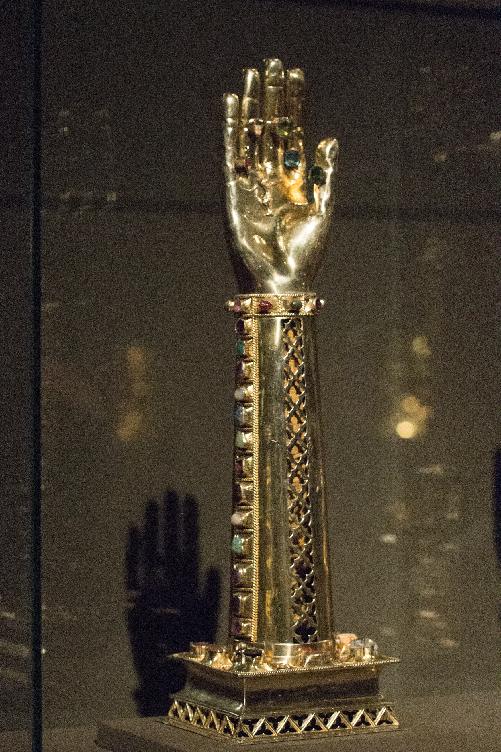 Reliquary with St Ludmila´s sr, bome from the Convent of St George at Prague Castle. Prague, 14th-15th century. Silver gilt, precious srones, glass. Prague, The Metropolitan Chapter of St Vitus, Inv. No. K 22.